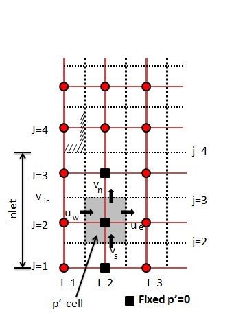 p’-cell at an intake boundary